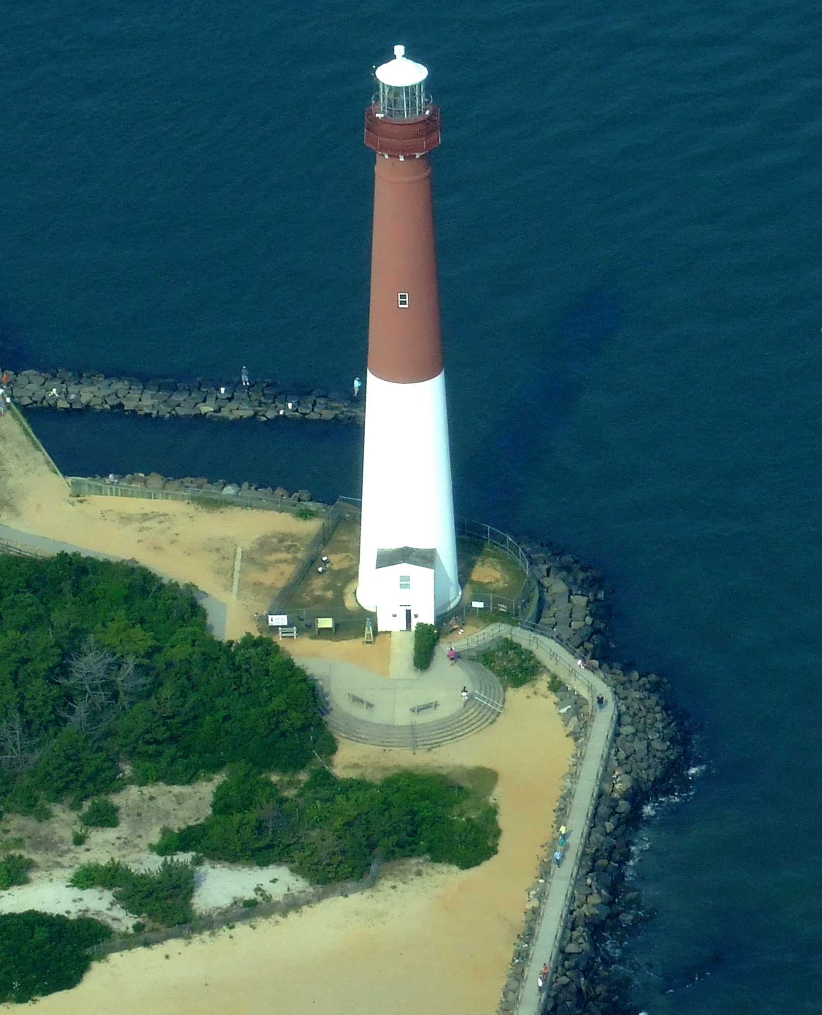 Barnegat Lighthouse